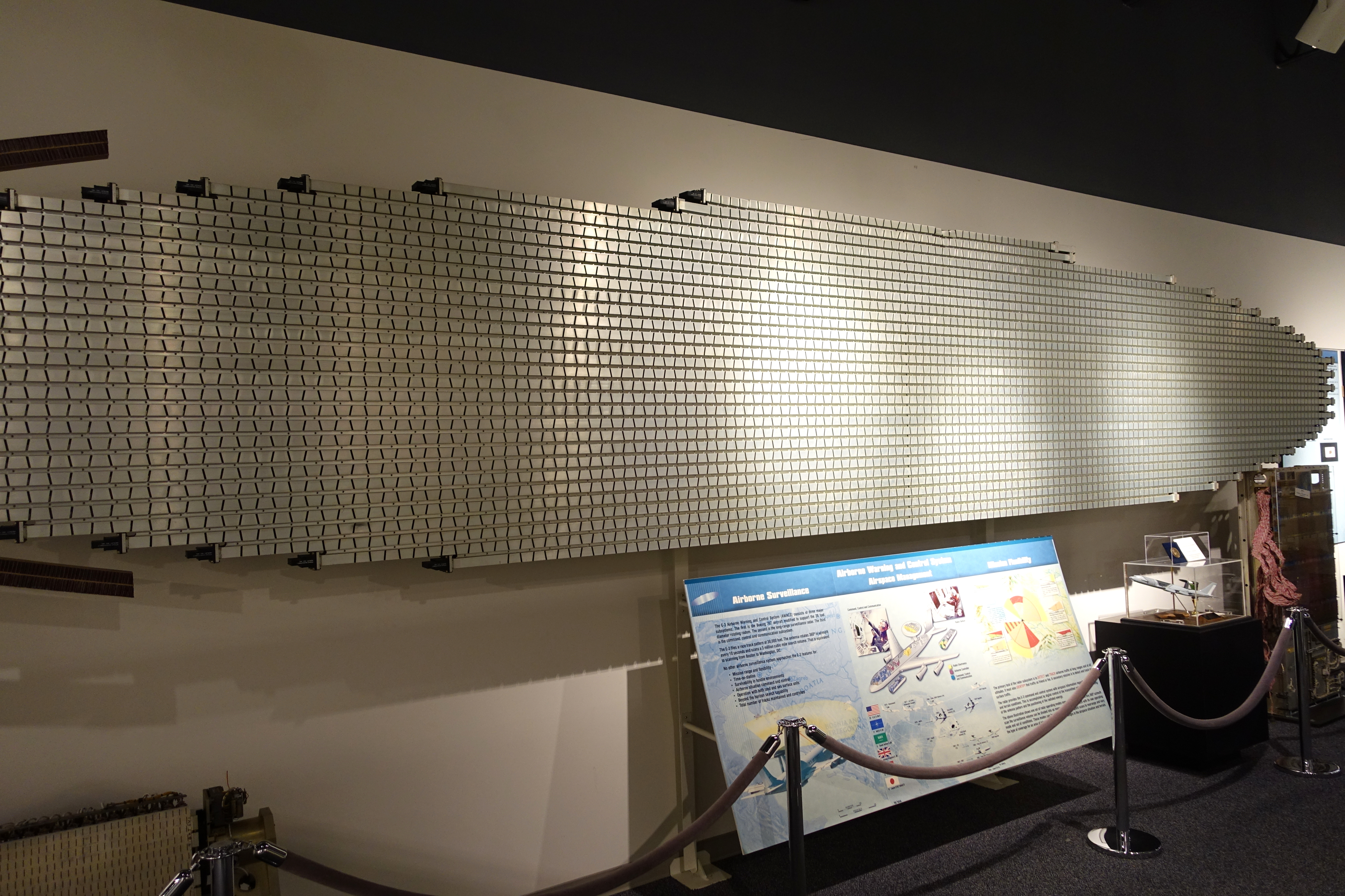 Exhibit in the National Electronics Museum, 1745 West Nursery Road, Linthicum, Maryland, USA. All items in this museum are unclassified. The museum permitted photography without restriction.